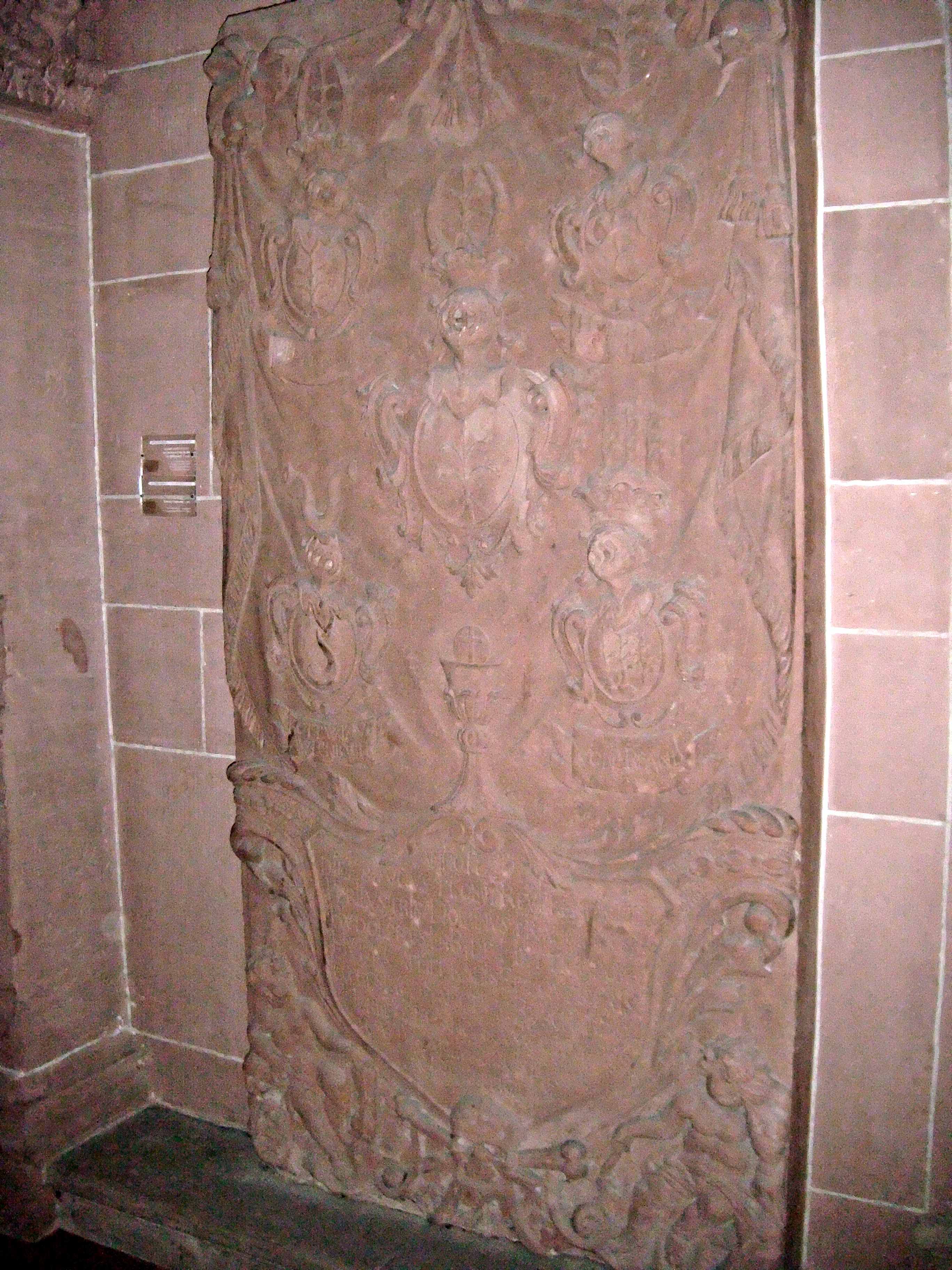 Wappenepitaph des Domkapitulars Franz Rudolph von Hettersdorf (1675-1729), im Wormser Dom